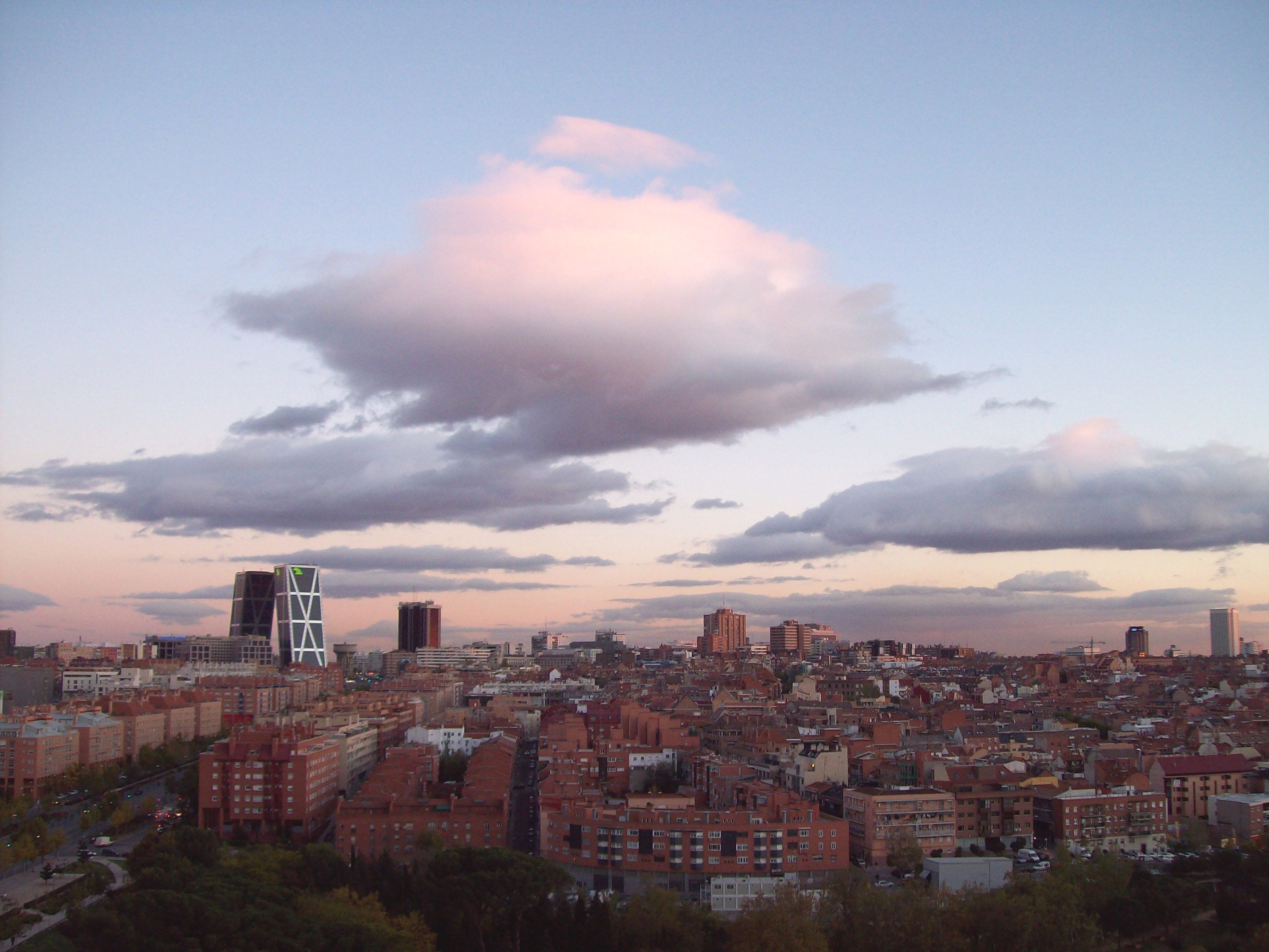 The sky over Tetuán district in Madrid (Spain). At the left, Puerta de Europa ("Gate of Europe") inclined buildings.